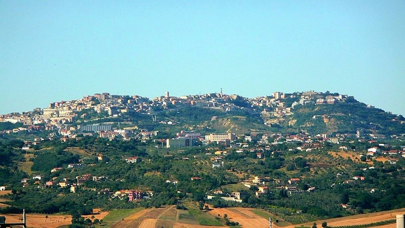 View of Ariano Irpino, Italy